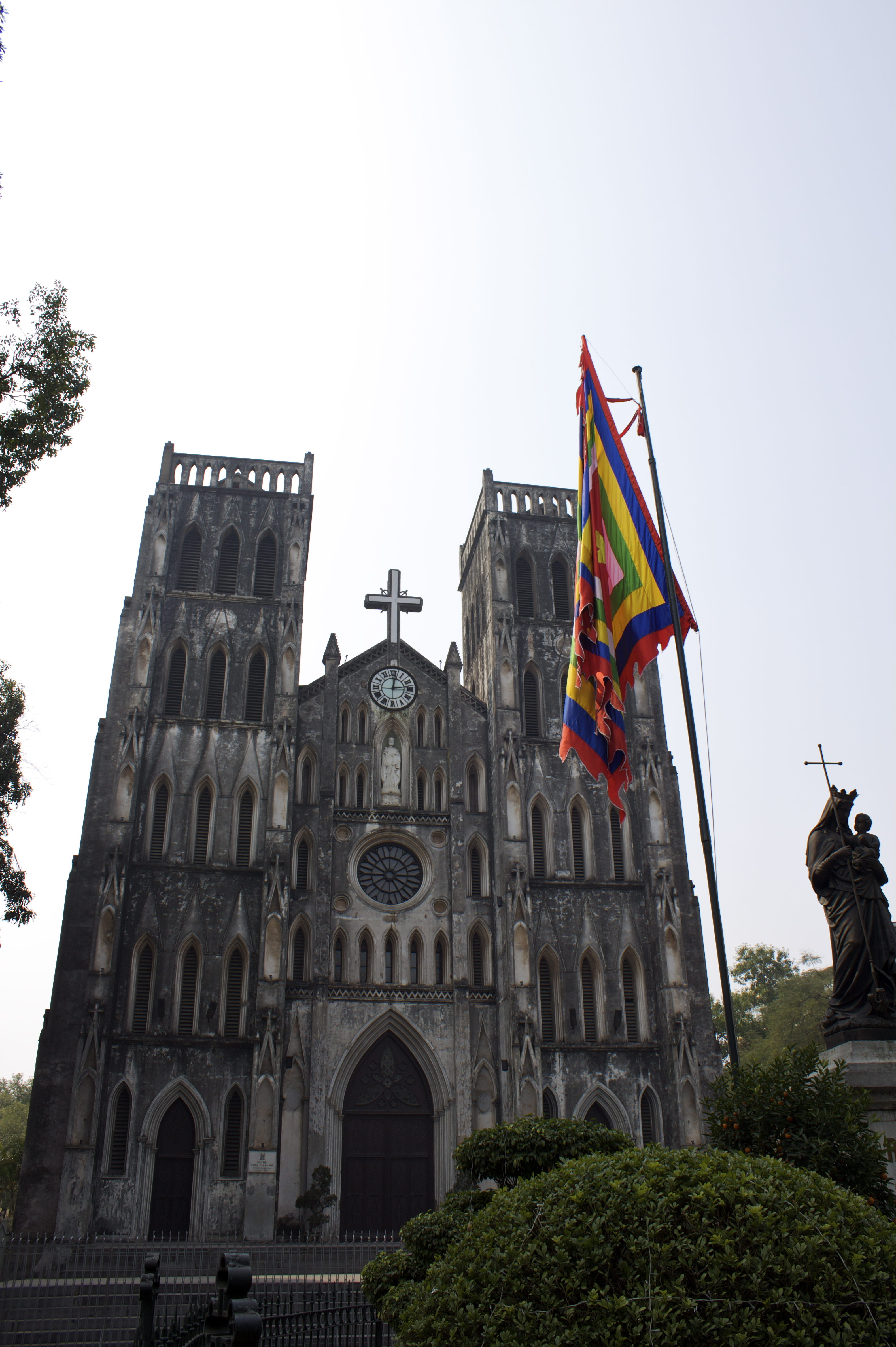 St. Joseph's Cathedral.